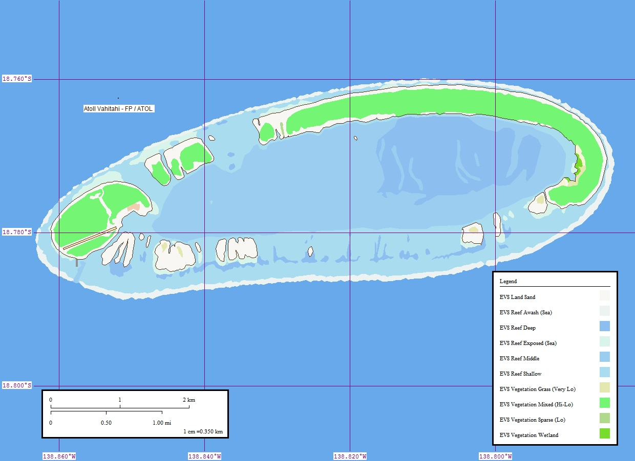 Map of Vahitahi Atoll, Tuamotu, French Polynesia